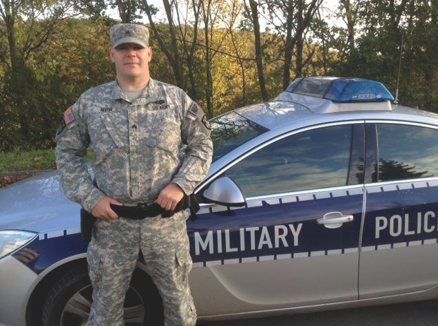 Sgt. Harry Nixon, 38, a military police officer with U.S. Army Garrison Rheinland-Pfalz's 95th Military Police Company, is credited with saving the life of a German man during a routine evening patrol near Miesau Army Depot, Germany.